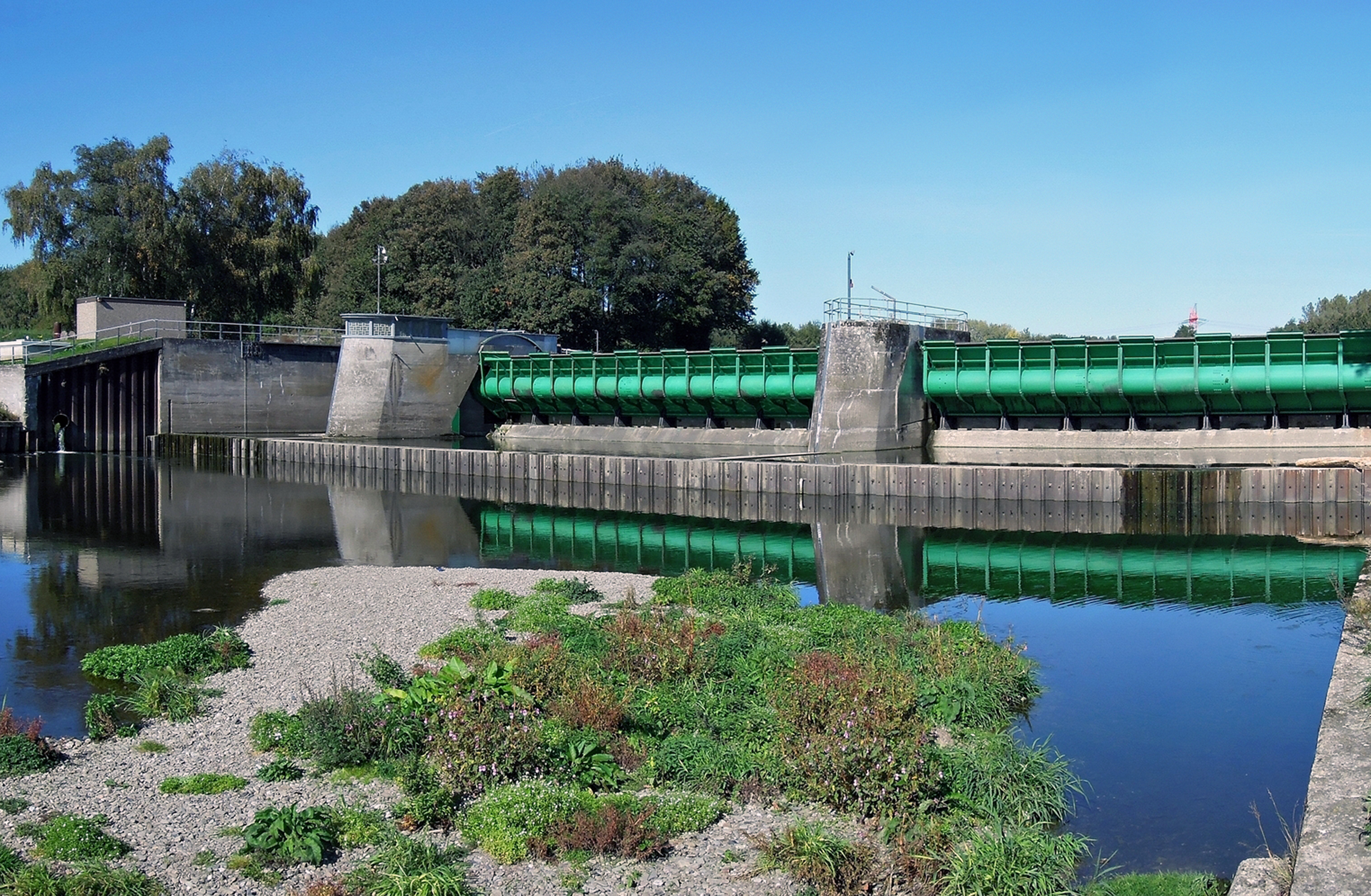 Weir of Hengsen reservoir, North Rhine Westphalia, Germany